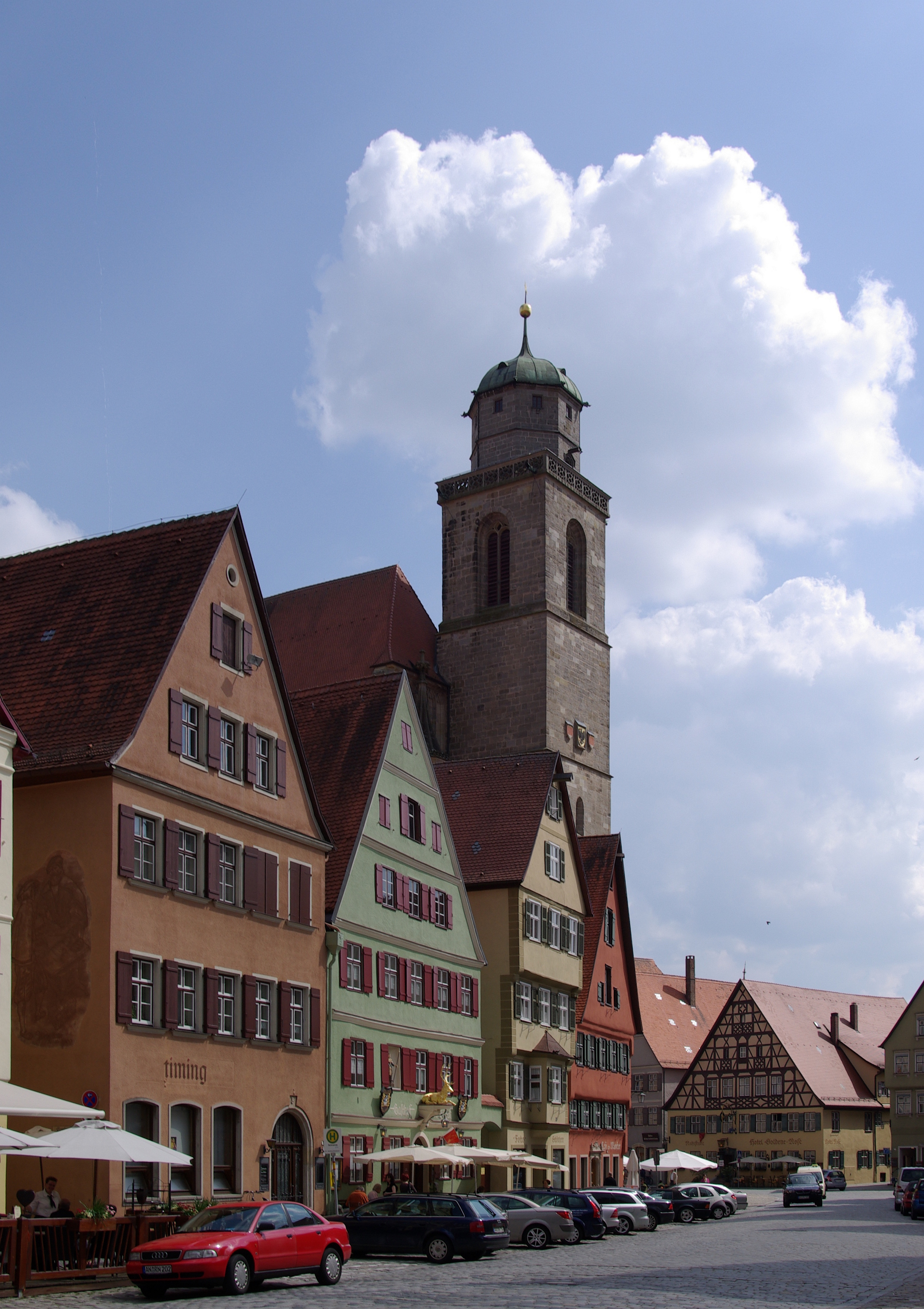 Germany, Dinkelsbühl, buildings at the Winemarket